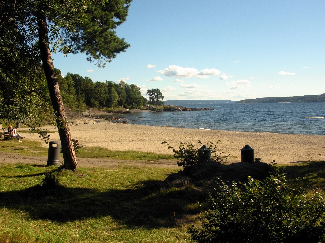 Paradisbukta – beach in Oslo (Norway)